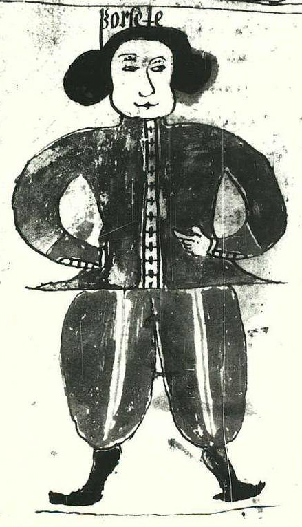 An illustration of the Norse god Forseti, from an Icelandic 17th century manuscript. A scan of a black and white photography.